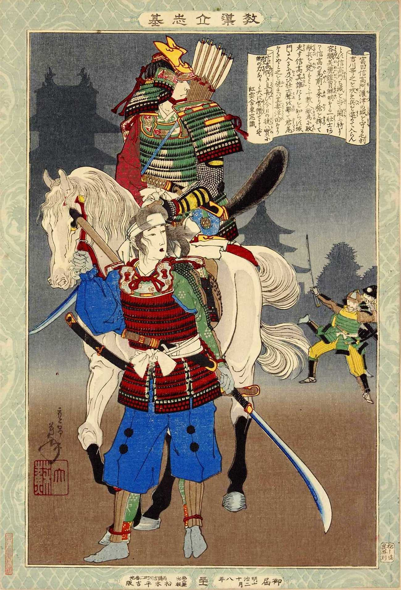 An ukiyo-e of Tomita Nobutaka rescued by his wife.